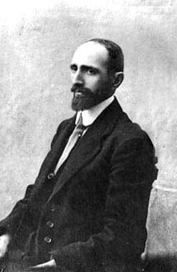 Noe Ramishvili. The Chief of Governments and Minister of Internal Affaires.